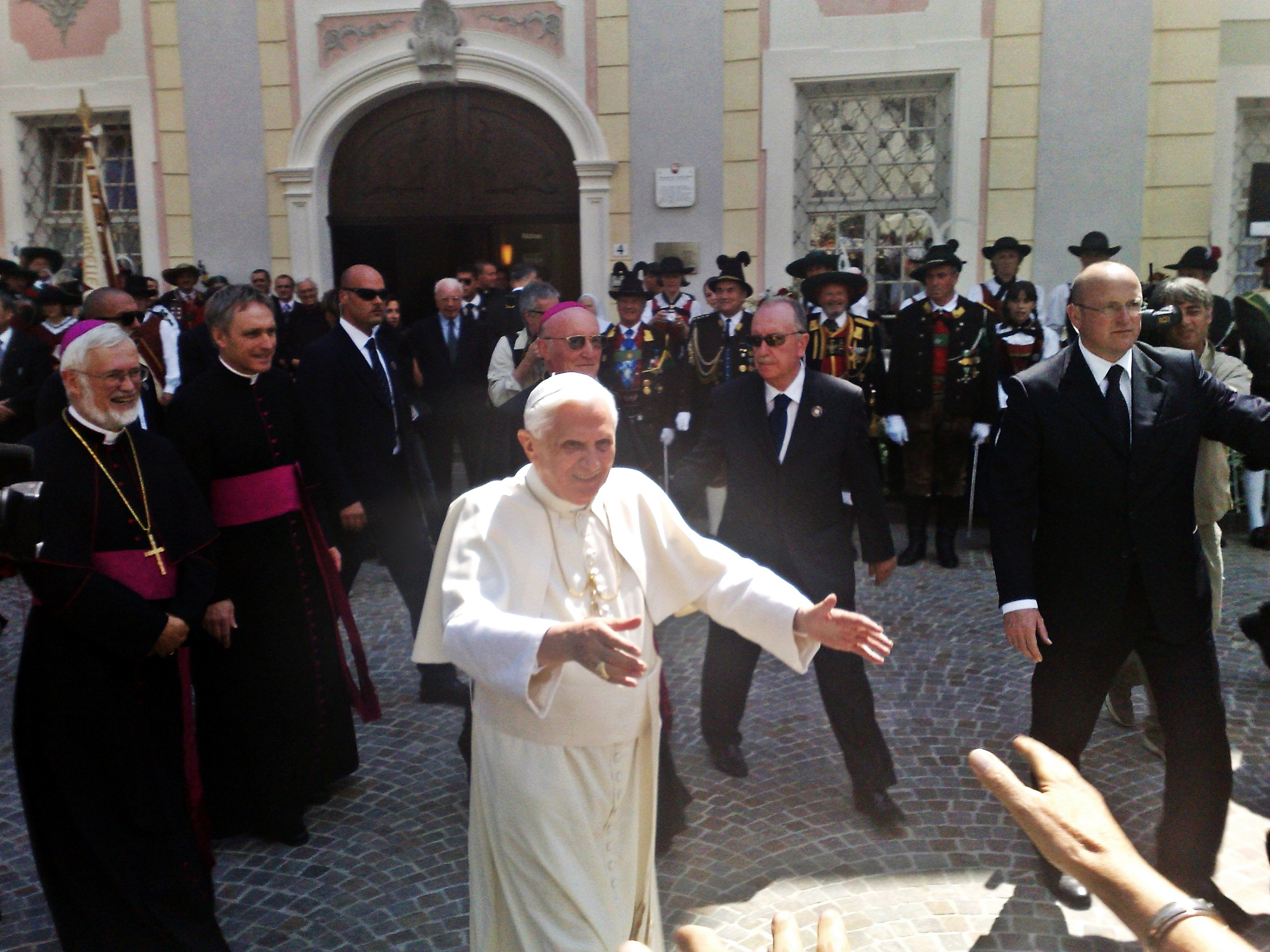 Pope Benedict XVI during his visit in Brixen